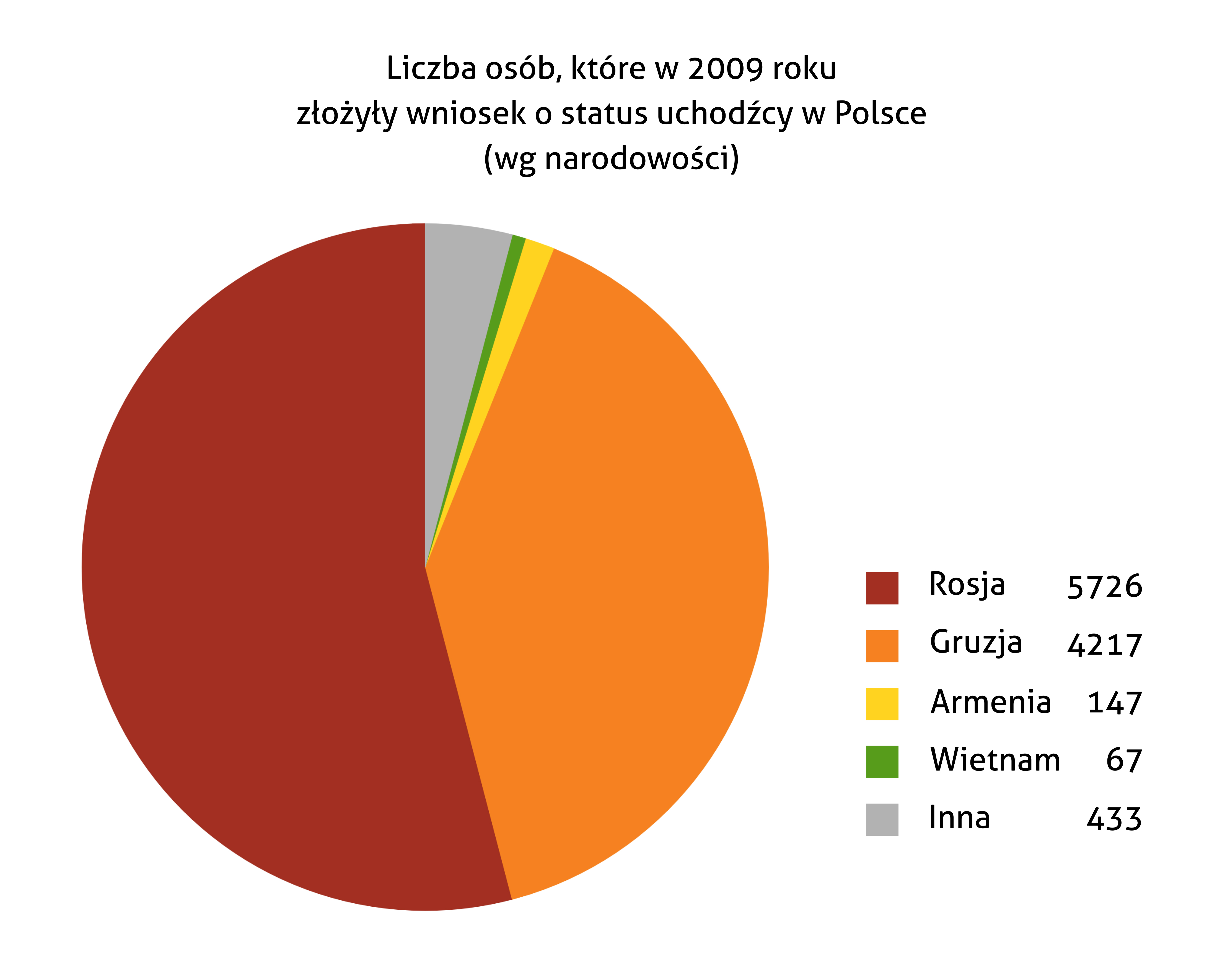 The pie chart represents number of people applied for refugee status in Poland in 2009. Data from